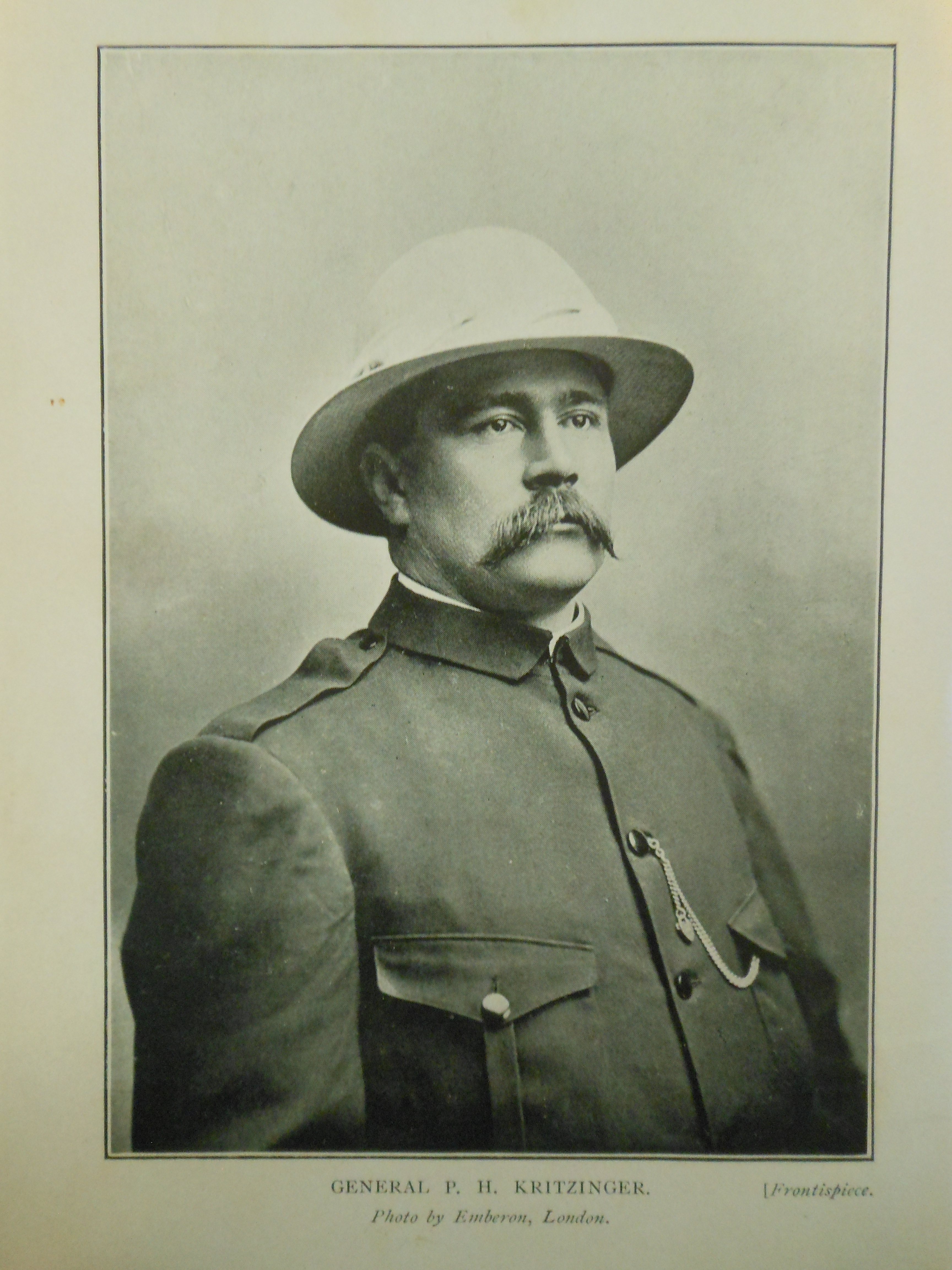 Pieter Hendrik Kritzinger (1870-1930) as depicted in his biography, 'In the Shadow of Death', London, 1905